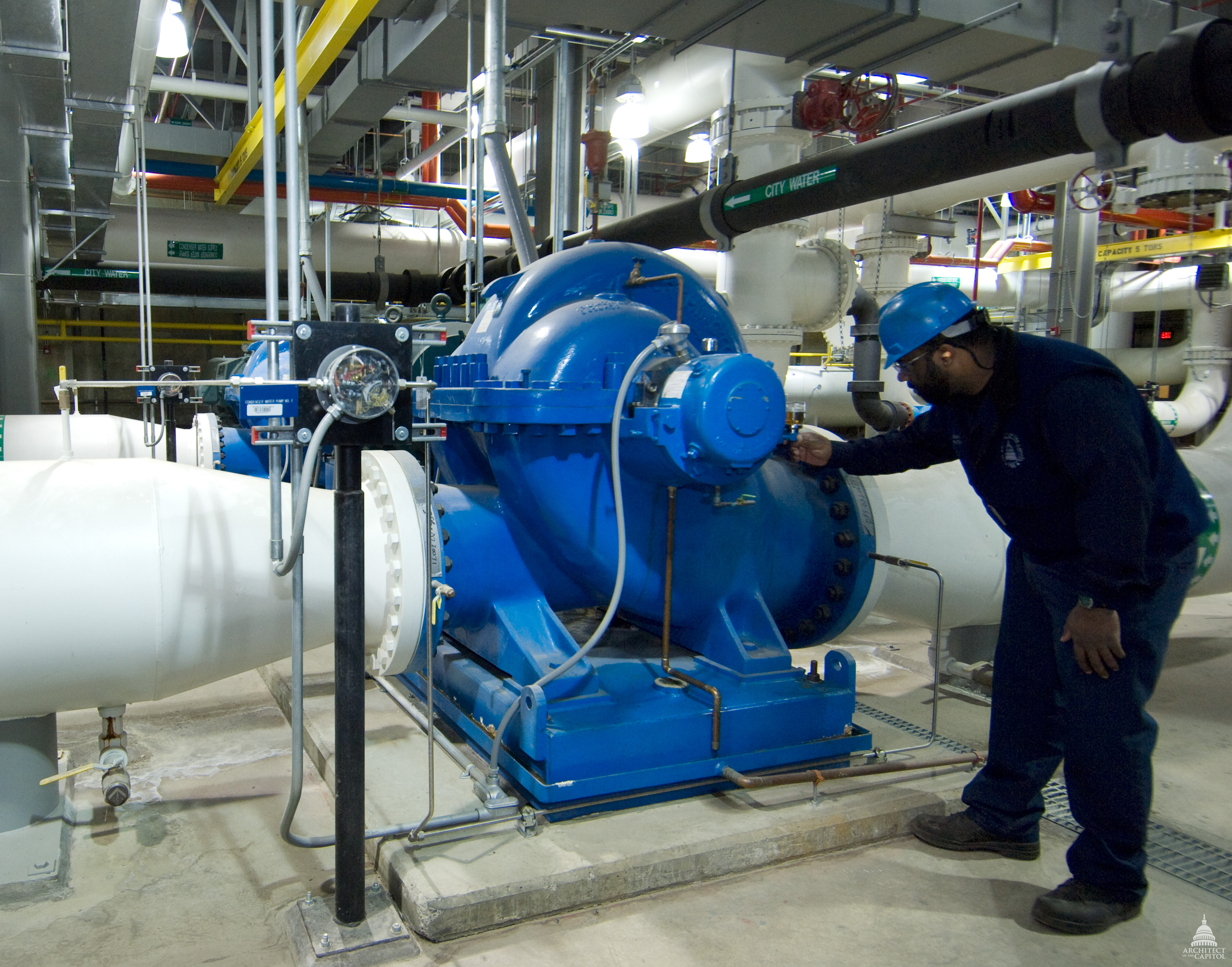 An AOC Capitol Power Plant employee inspects the equipment to ensure it is reliable every day of the year. This official Architect of the Capitol photograph is being made available for educational, scholarly, news or personal purposes (not advertising or any other commercial use). When any of these images is used the photographic credit line should read “Architect of the Capitol.” These images may not be used in any way that would imply endorsement by the Architect of the Capitol or the United States Congress of a product, service or point of view. For more information visit